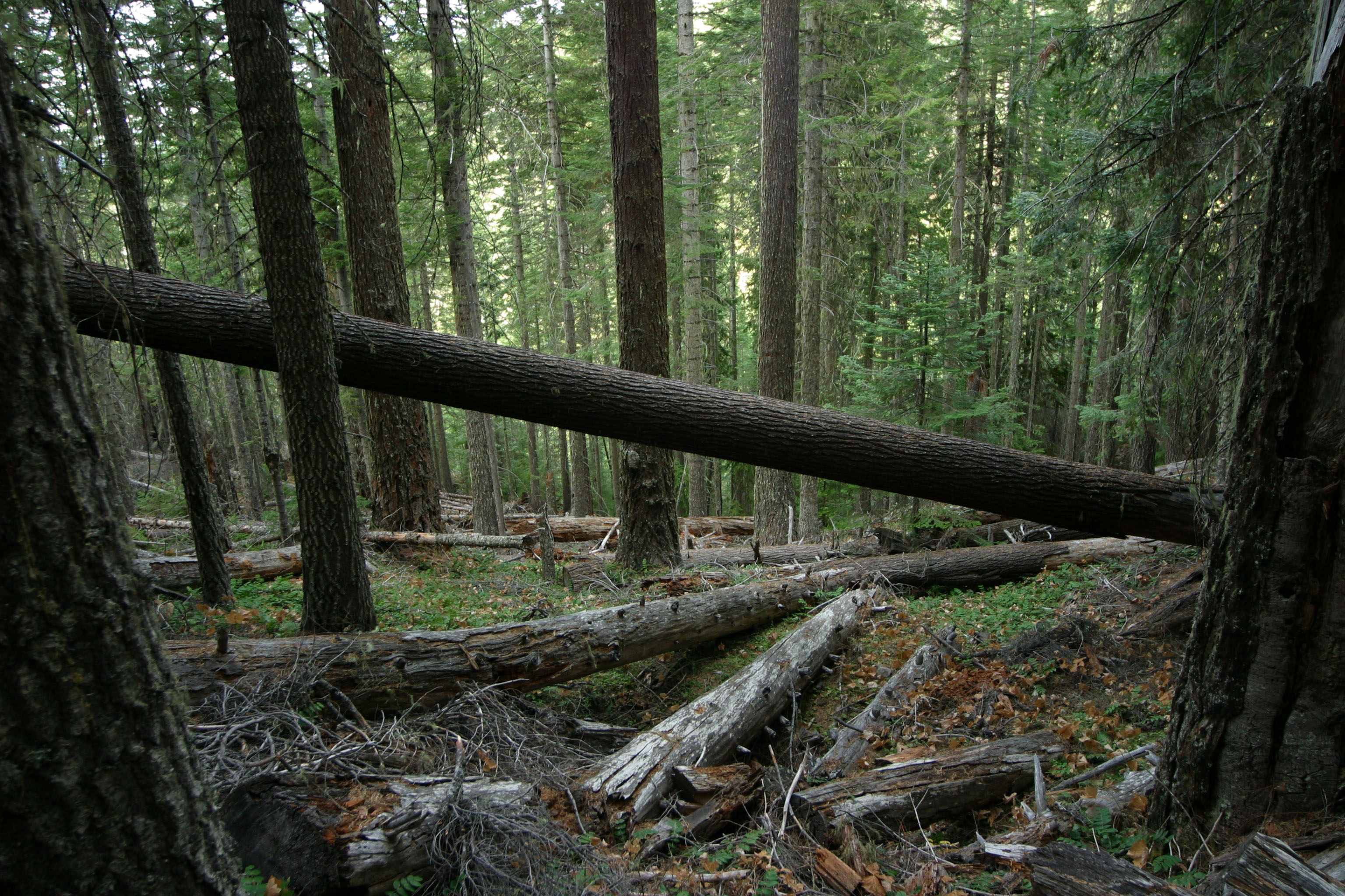 Oregon Caves National Monument, Siskiyou National Forest